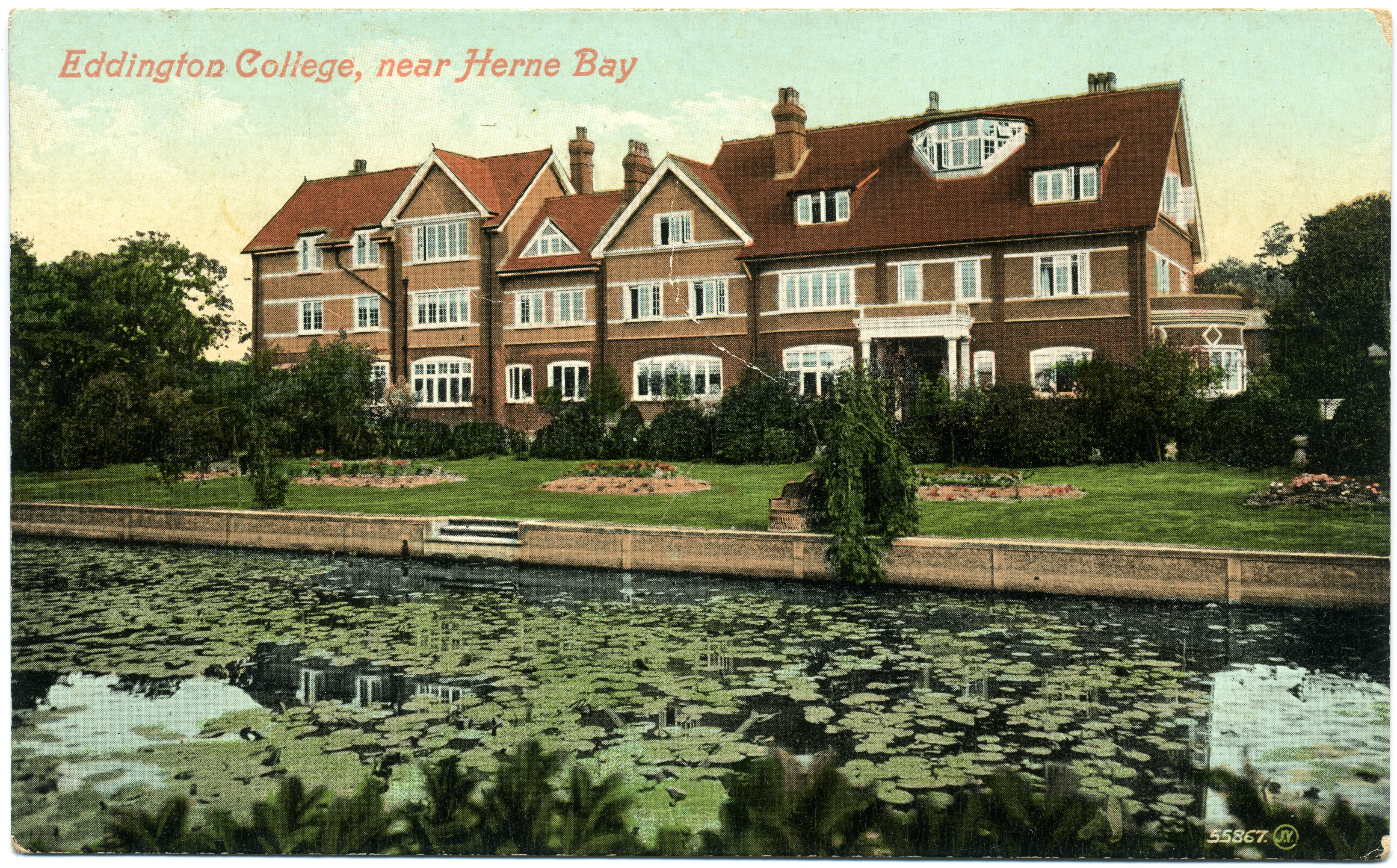 Hand-tinted postcard of Eddington College, Herne Bay, Kent, England. It was built around 1900, and taken over by the military in 1914. It was re-named Herne Bay College after World War I, taken over by the military again in 1939, and became Herne Bay Court Evangelical centre in 1949. The site was redeveloped around 2007.